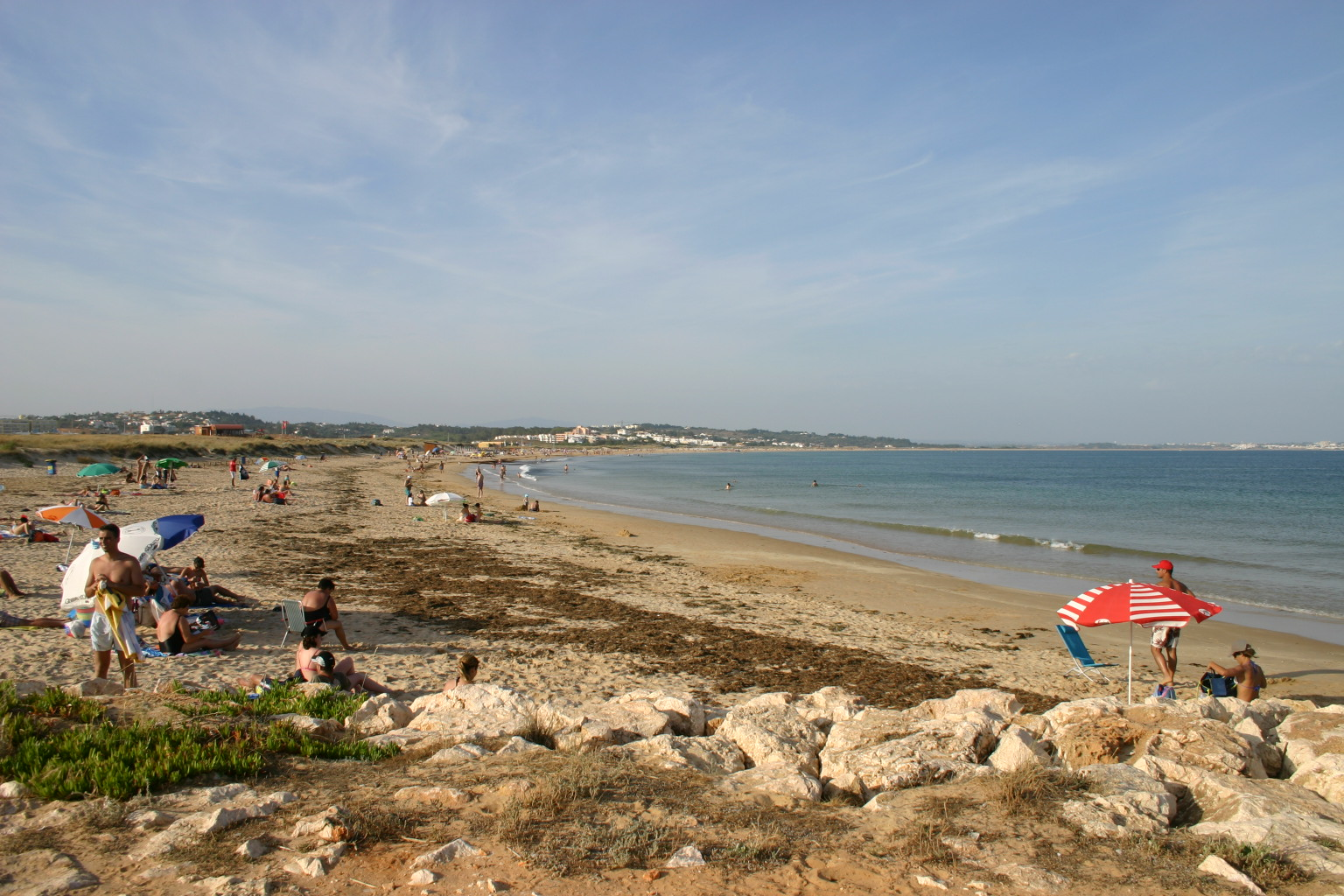 Author: António M.L. Cabral; Copy permited if the name of the author is included.